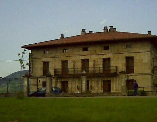 18th Century house in San Vicente de Toranzo (Cantabria)